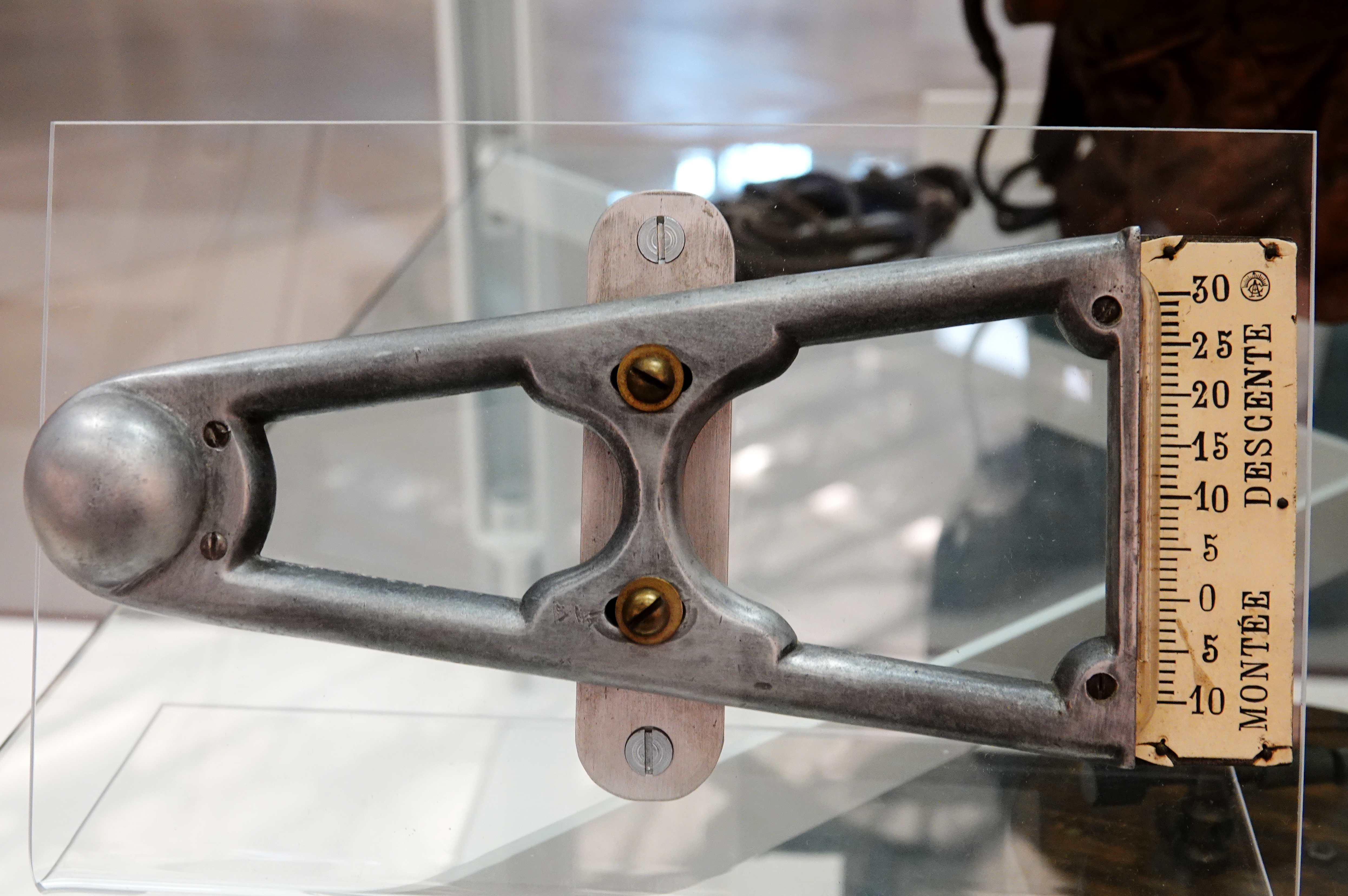 Inclinometer from a 1913 Blériot monoplane. The instrument shows an airplane’s angle of climb and descent. Picture taken at the National Air and Space Museum's Steven F. Udvar-Hazy Center in Chantilly, Virginia, USA. -- Gift of John J. Curran